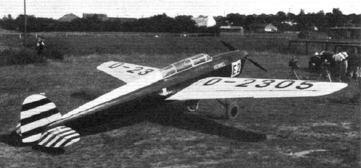 Heinkel He 64c of Werner Junck during the Challenge 1932 contest.